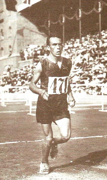 Christopher “Christian” Gitsham, Athlet and medalwinner at the 1912 Olympic Games photography, adapted reproduction, no restrictions on use Copyright: free of charges